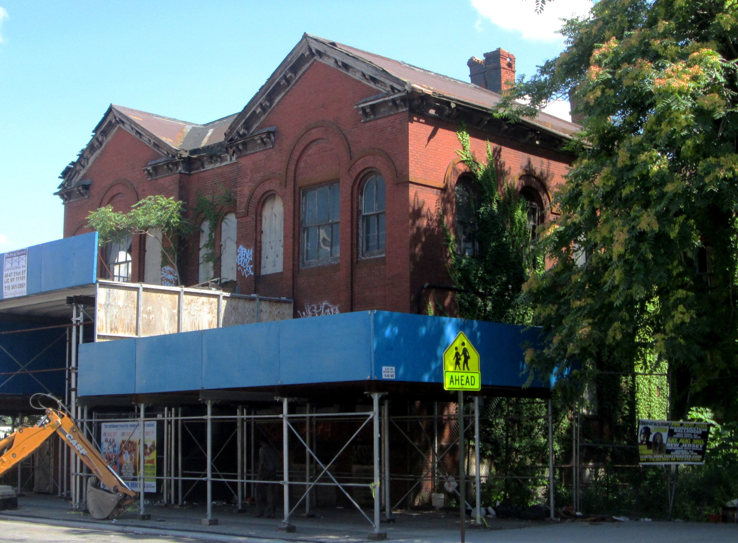 The Flatbush District No. 1 School at 2274 Church Avenue on the corner of Bedford Avenue in the Flatbush neighborhood of Brooklyn, New York City, was built in 1878 and was designed by John Y. Culyer in the Rundbogenstil style, with a southern addition which dates from 1890-94. The school, which dates from the period before the Town of Flatbush was integrated into the City of Brooklyn in 1894, was later designated Public School 90, but the building was closed in 1951. Since then, it has been used as Yeshiva University's Boy's High School and the Beth Rivkah Institute, but is currently vacant. (Source: Guide to NYC Landmarks (4th ed.))